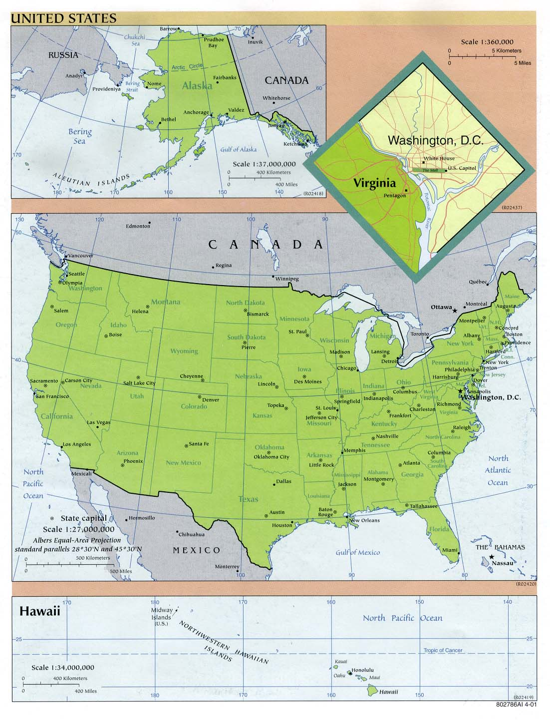 United States map depicting the individual states and Washington DC